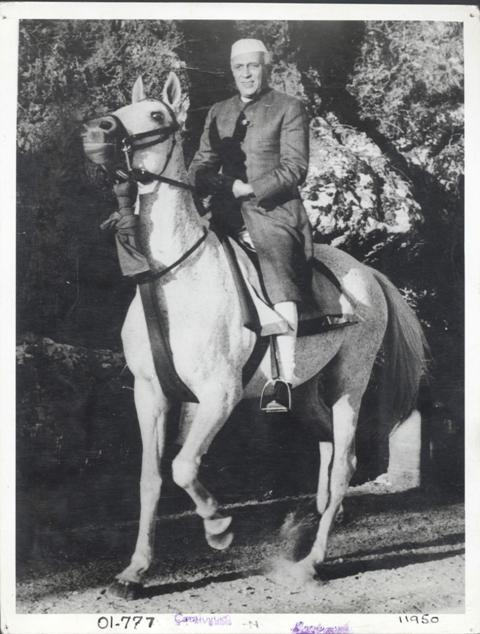 "Jawaharlal Nehru on horseback in Achkan and chooridar."